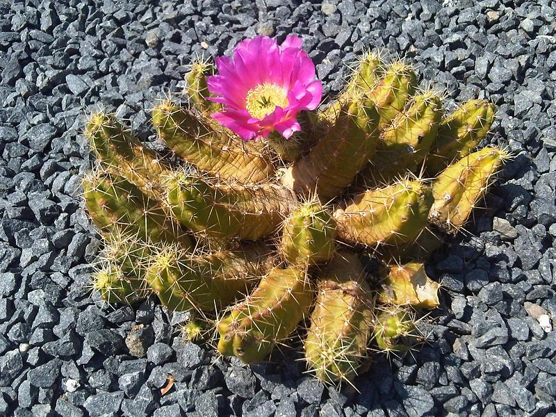 Echinocereus pentalophus in Kew Gardens, London, England.